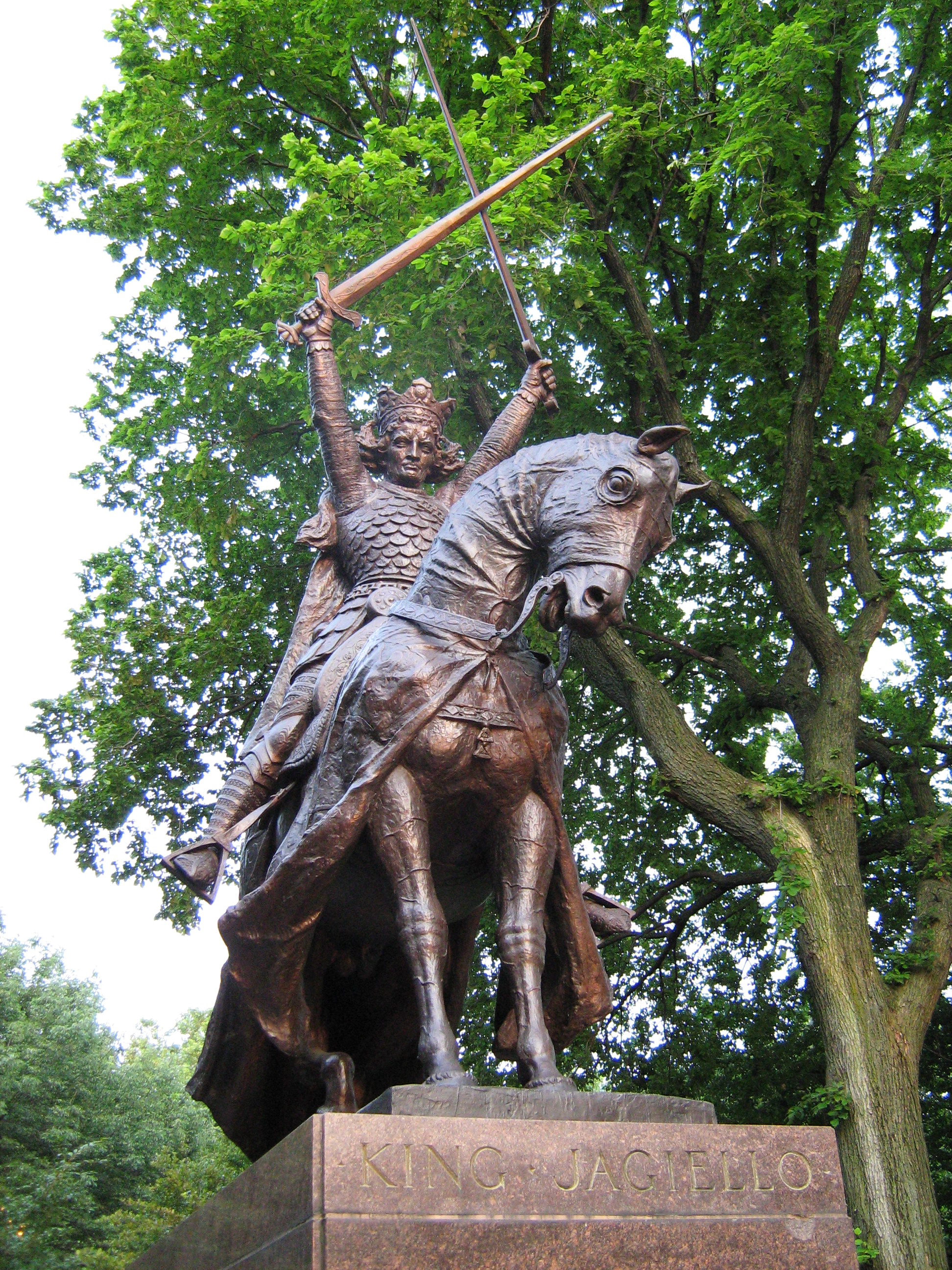 Statue of Jogaila (Władysław II Jagiełło) Poland. The King Jagiello Monument located in Central Park New York City, New York, USA.